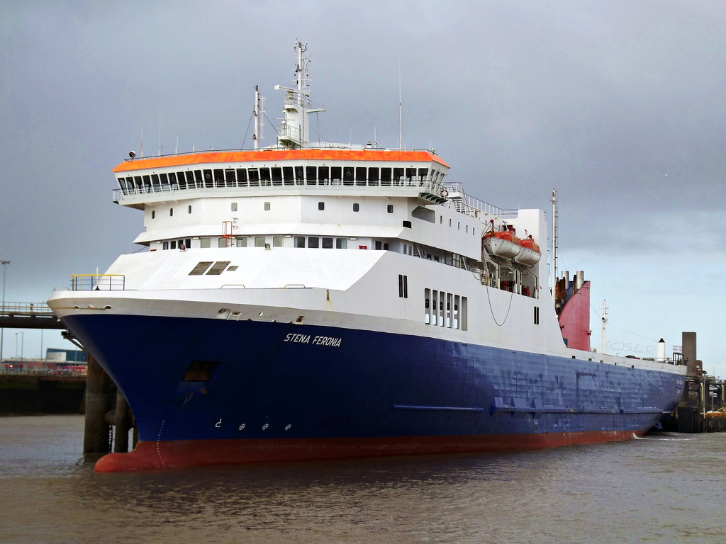 The ex Dublin Seaways/Dublin Viking seen back on the Mersey to provide refit cover on Stena Line's Birkenhead to Belfast service. She is seen at Twelve Quays.